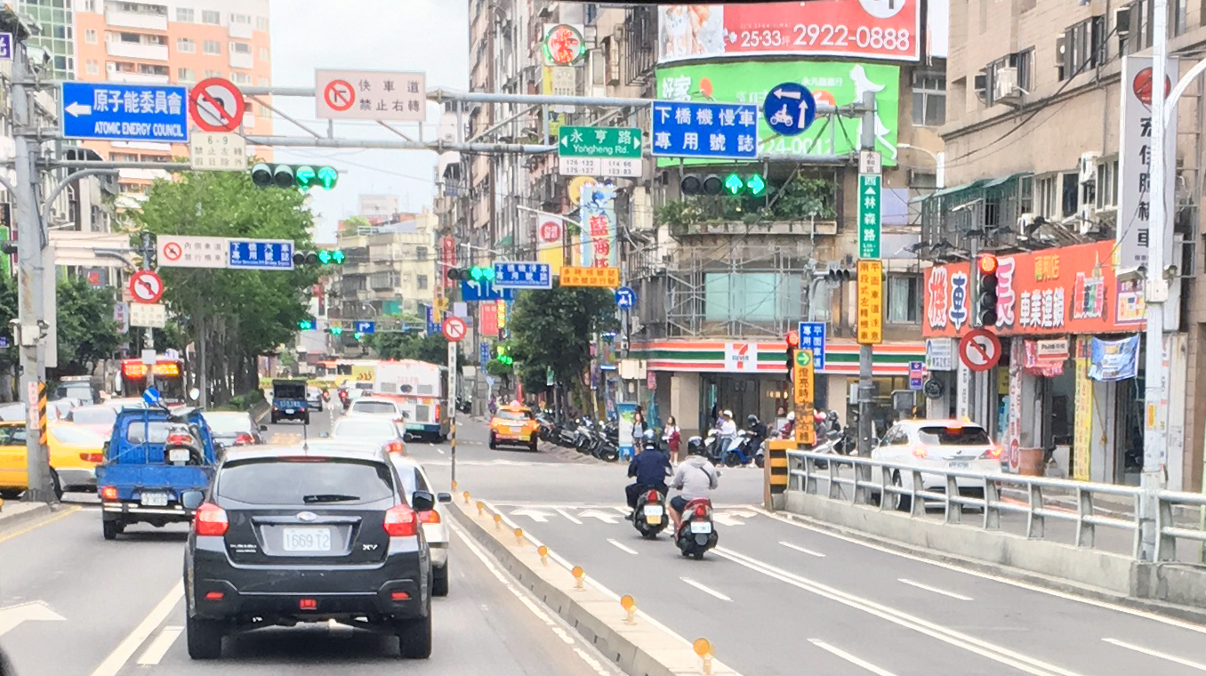 End of Fuhe Bridge in Yonghe, New Taipei, Taiwan